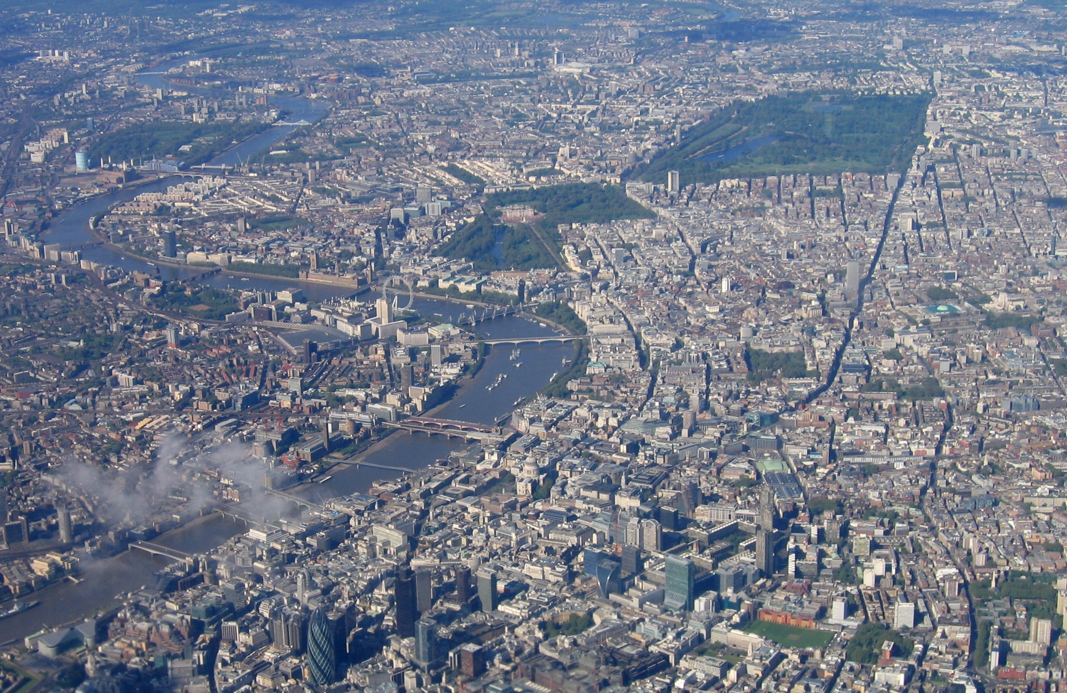 London, England as viewed from an airplane.